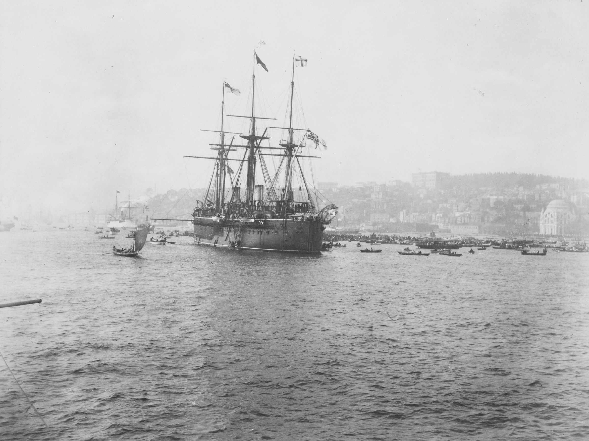 The German armoured frigate SMS Kaiser in Istanbul, Ottoman Empire, in 1889. Emperor Wilhelm II. was embarked on a tour visiting Genoa, Athens, Istanbul and Venice. The 7,650 ts SMS Kaiser had been built at Samuda Brothers, London (UK), was launched in 1874, and commissioned on 13 February 1875. She became a depot ship in 1905 and was renamed SMS Uranus, and was finally scrapped in 1920. During her career she was also present at the German annexion of Tsingtao, China, in 1897.